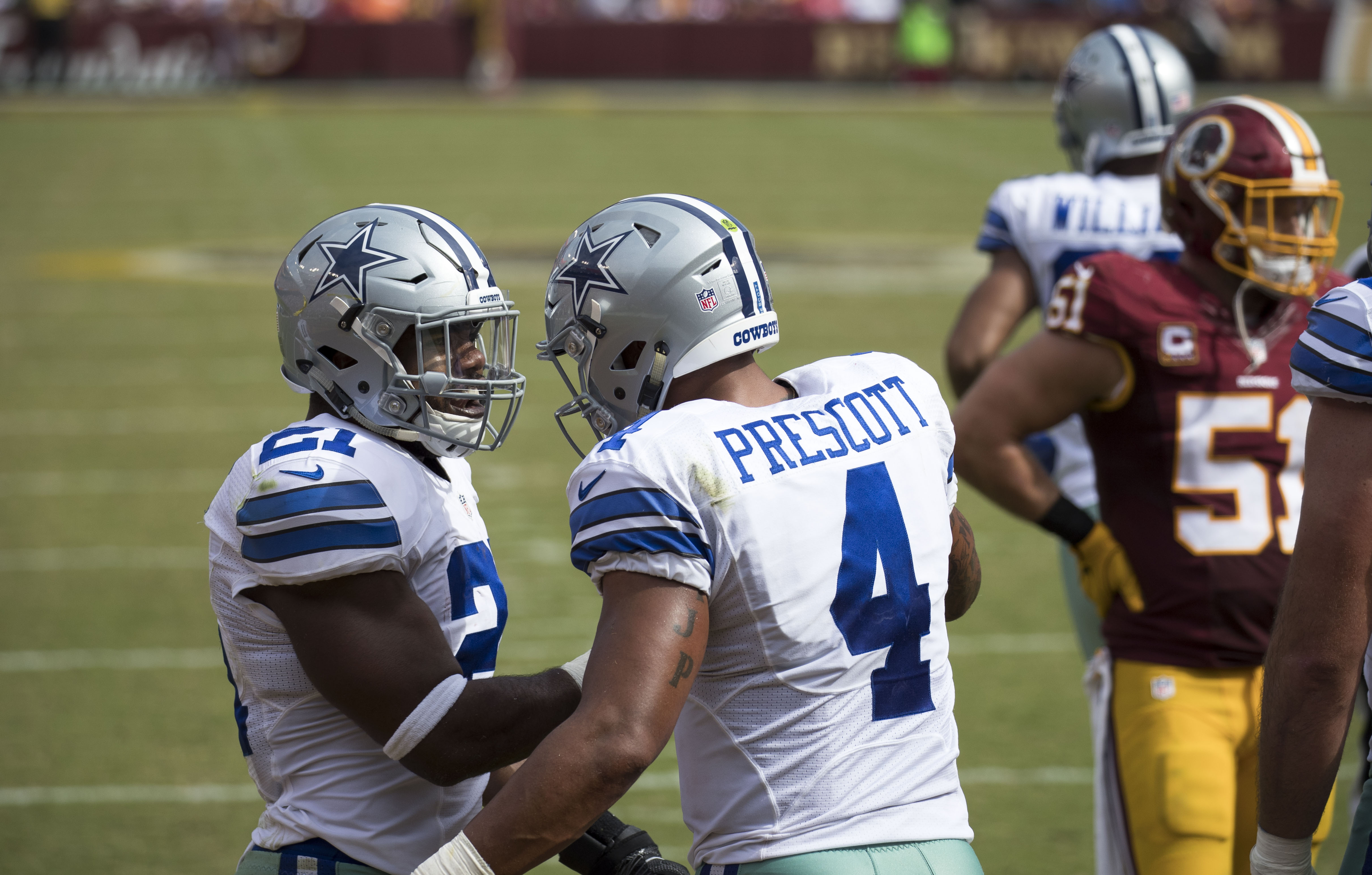 Dak Prescott and Ezekiel Elliott during Cowboys at Redskins game on 9/18/16